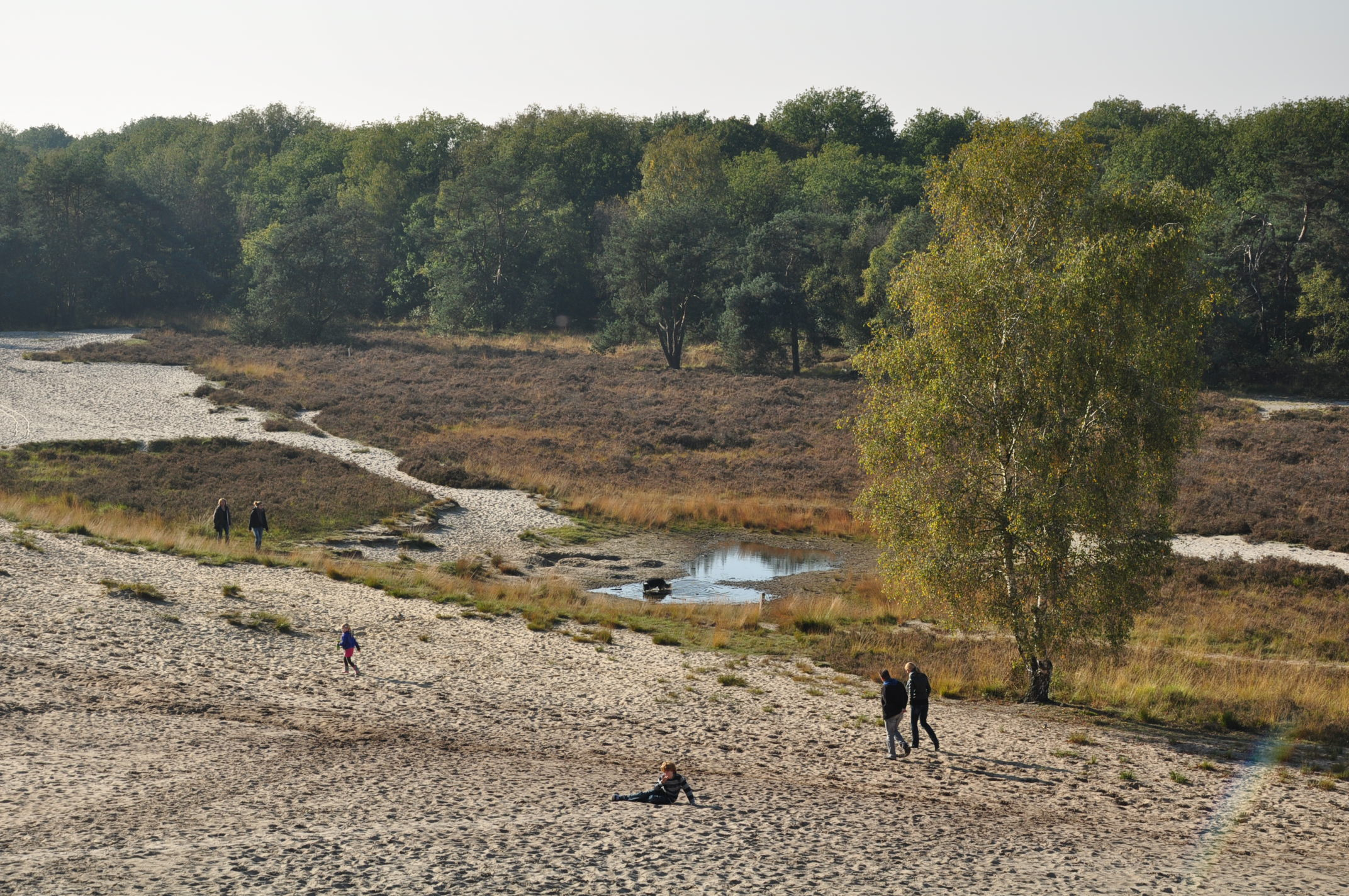 View from the dunes at Bedaf, a hamlet near Uden (Province of North Brabant, Netherlands).